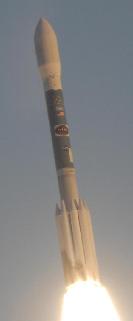 KENNEDY SPACE CENTER, FLA. -- At Cape Canaveral Air Force Station, the Delta II rocket with NASA's THEMIS spacecraft aboard lifts off Pad 17-B on a crisp Florida evening at 6:01 p.m. EST. THEMIS, an acronym for Time History of Events and Macroscale Interactions during Substorms, consists of five identical probes that will track violent, colorful eruptions near the North Pole. This will be the largest number of scientific satellites NASA has ever launched into orbit aboard a single rocket. The THEMIS mission aims to unravel the mystery behind auroral substorms, an avalanche of magnetic energy powered by the solar wind that intensifies the northern and southern lights. The mission will investigate what causes auroras in the Earth�s atmosphere to dramatically change from slowly shimmering waves of light to wildly shifting streaks of bright colour. - Cropped image